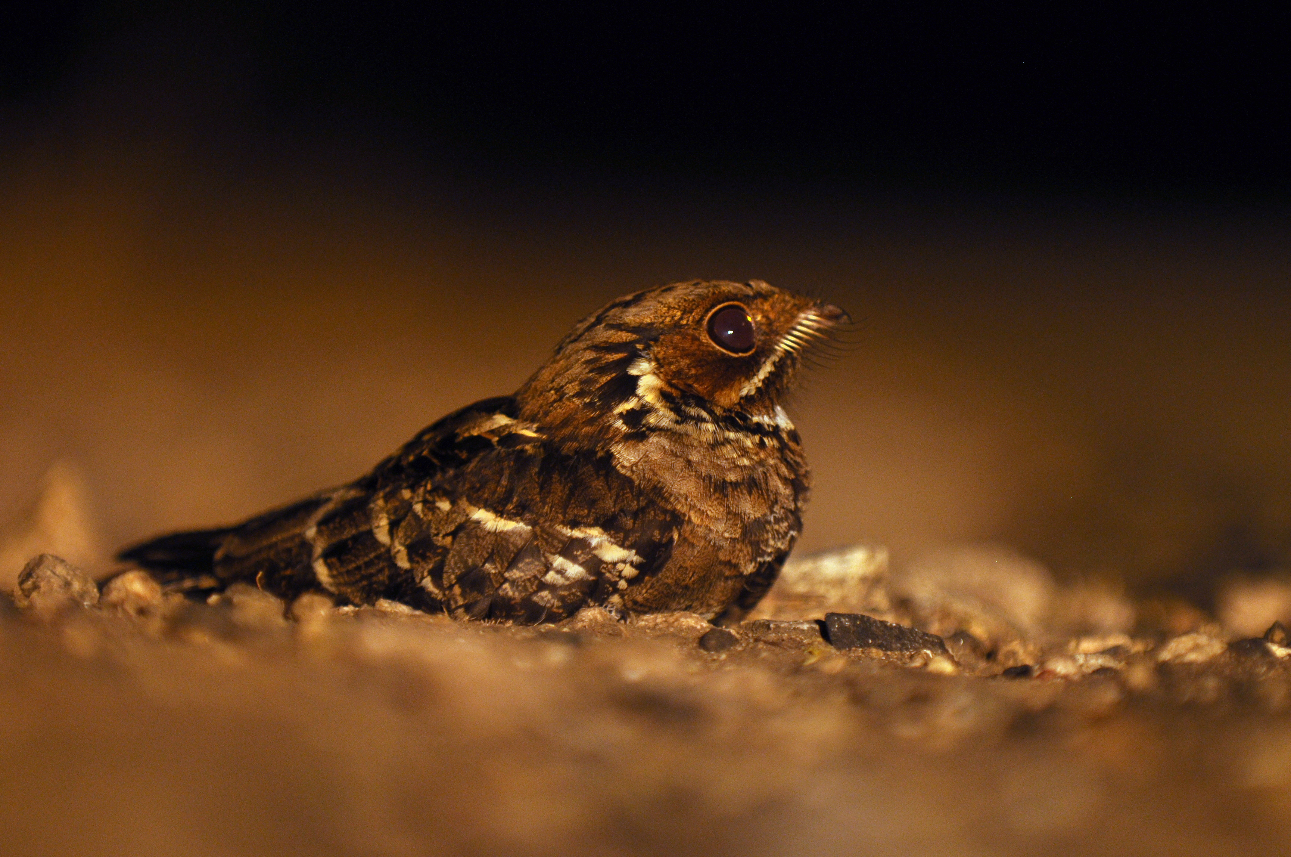 Jerdon's Nightjar